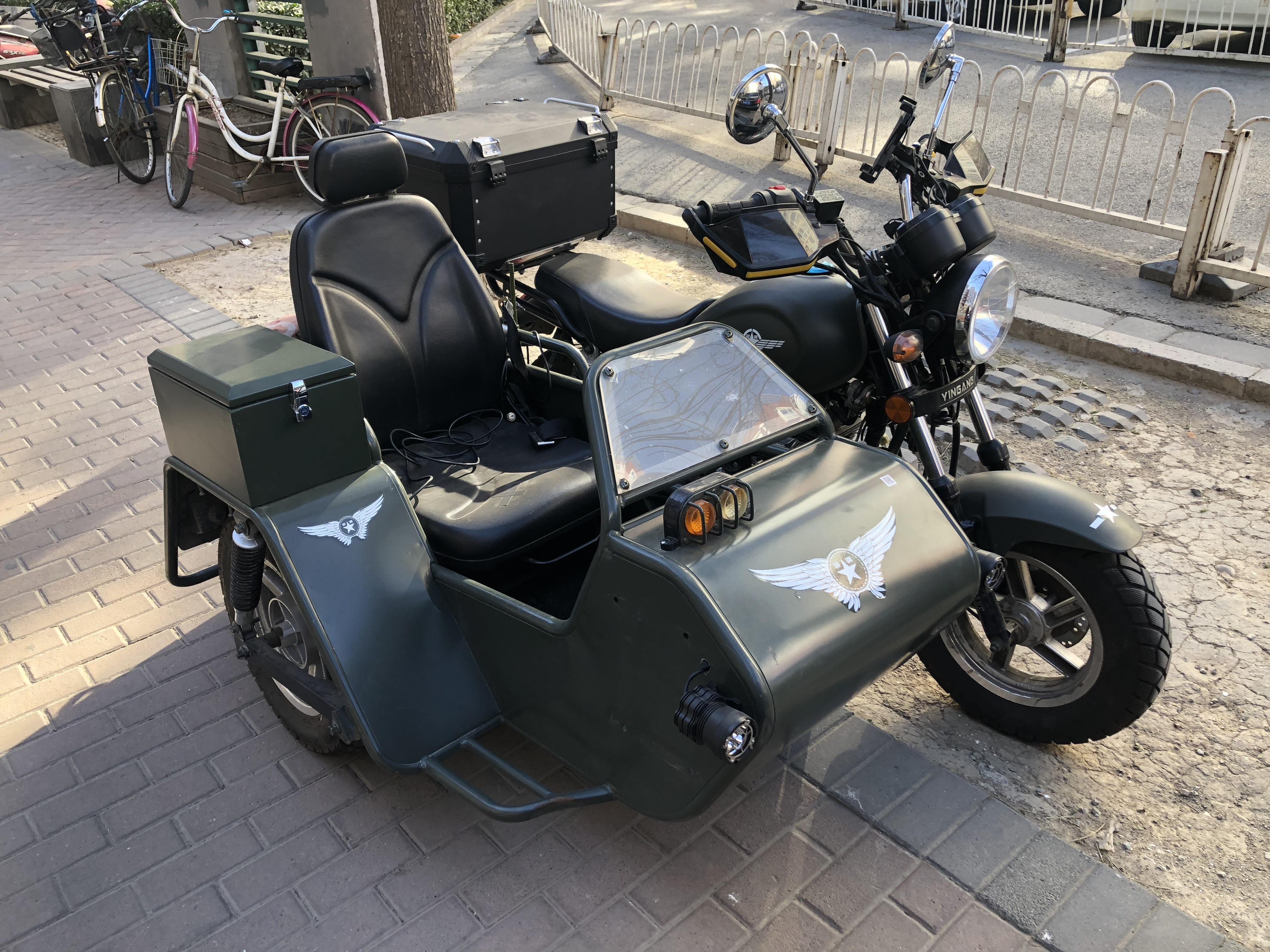 Motocycle with sidecar, unlocked